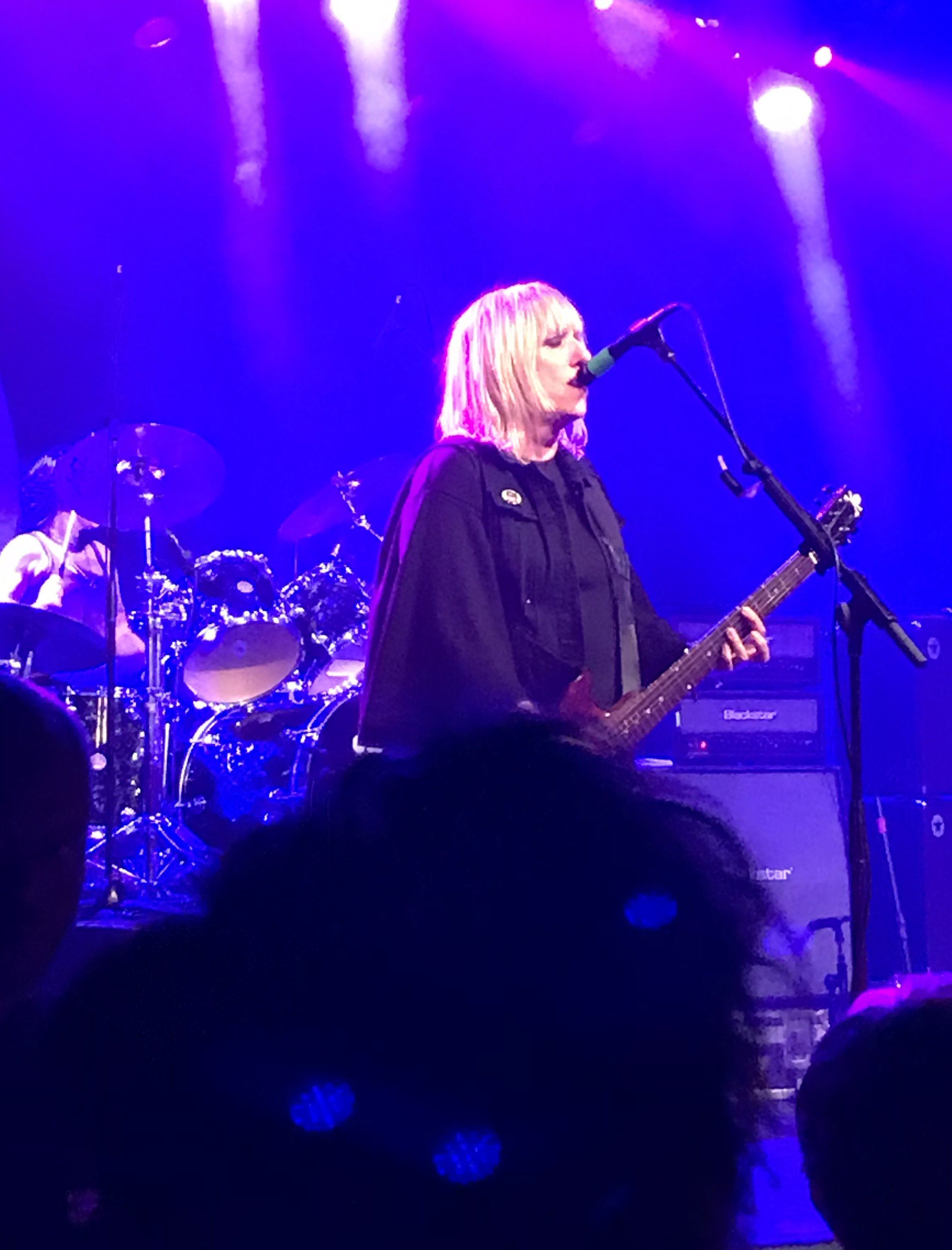 Suzanne Gardner performing in Vancouver, BC in June 2019